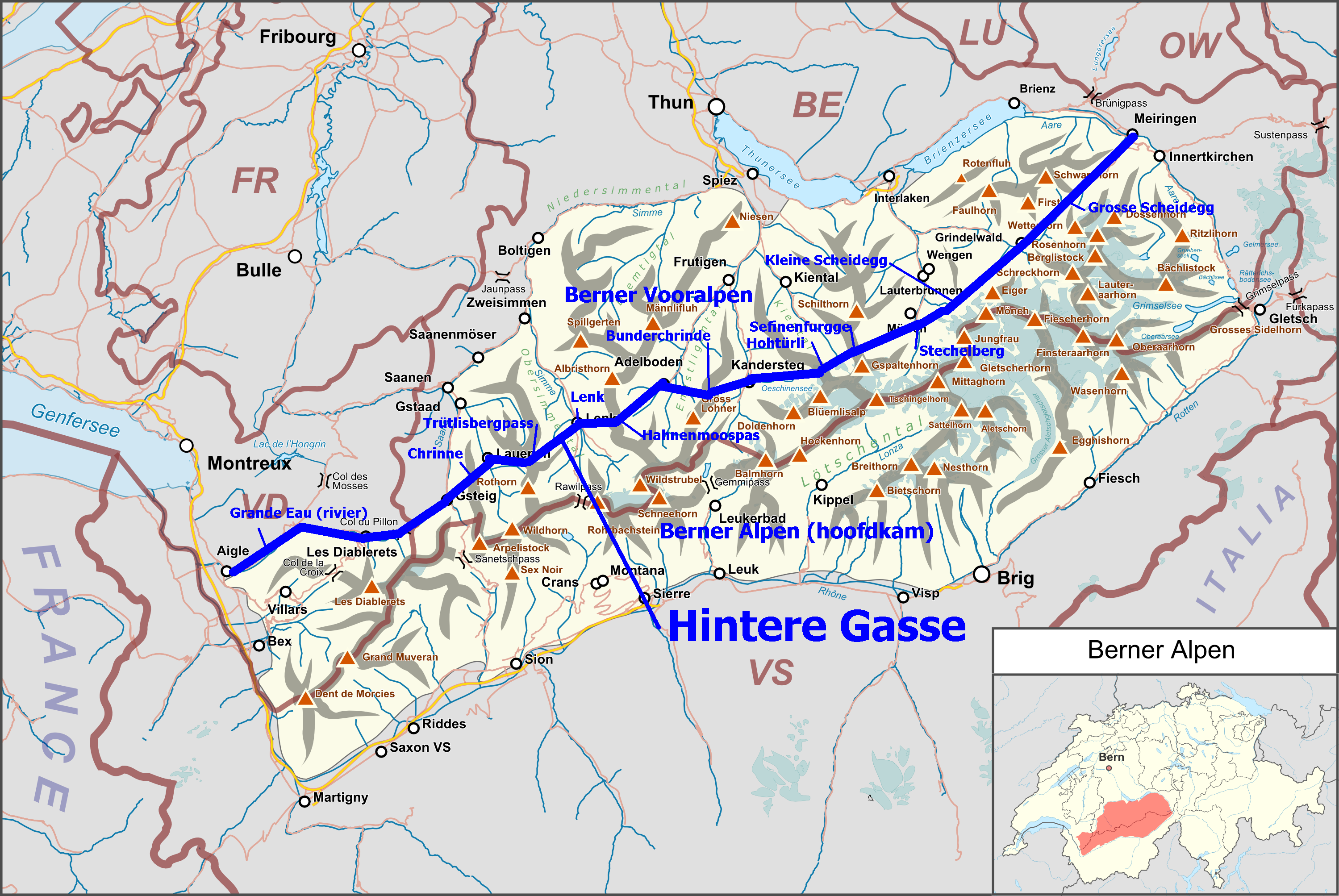 Hintere Gasse in the Bernese Alps - scheme